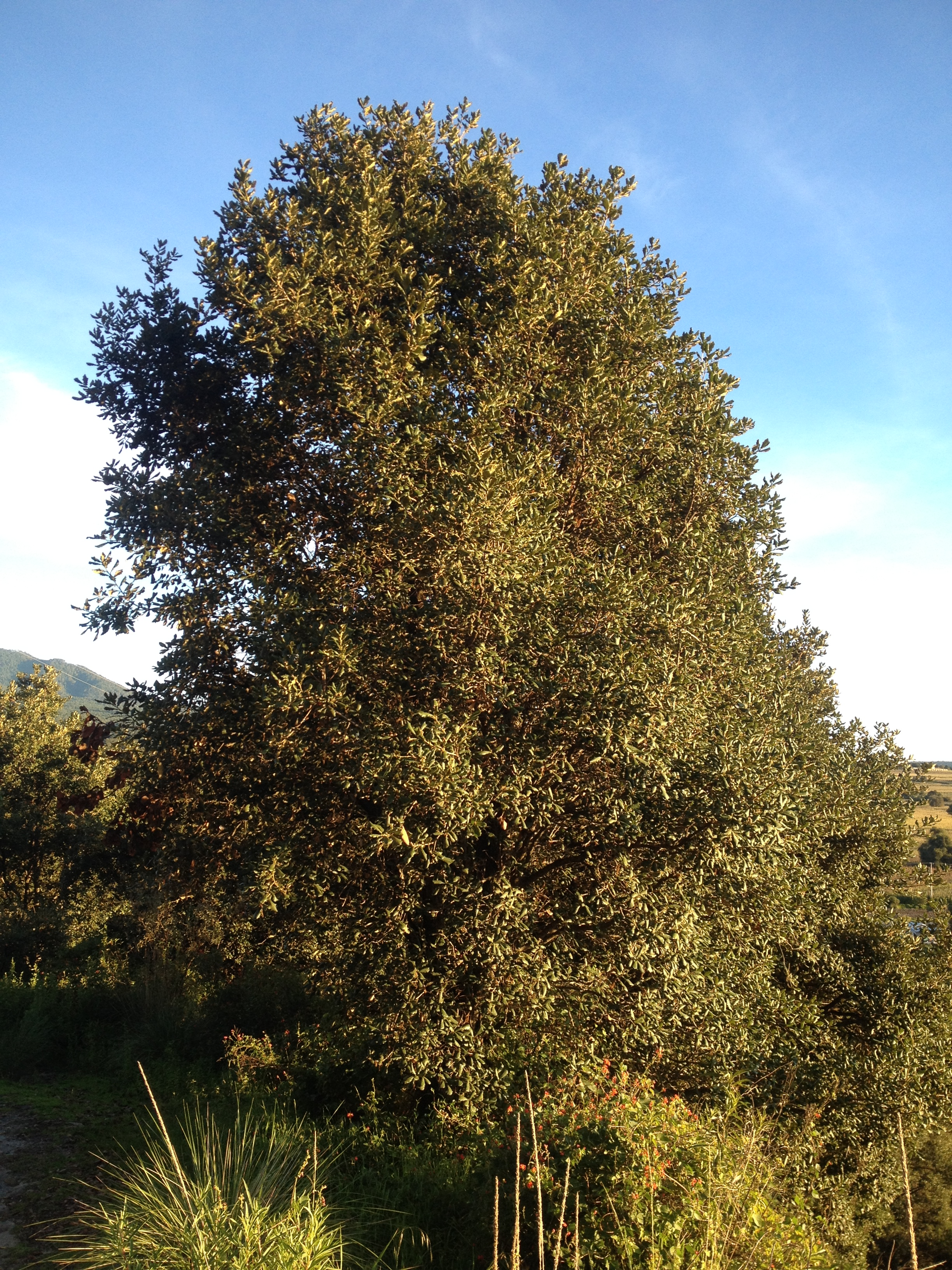 Quercus rugosa (netleaf oak) on Cerro El Tintero (Acajete, Puebla, Mexico)